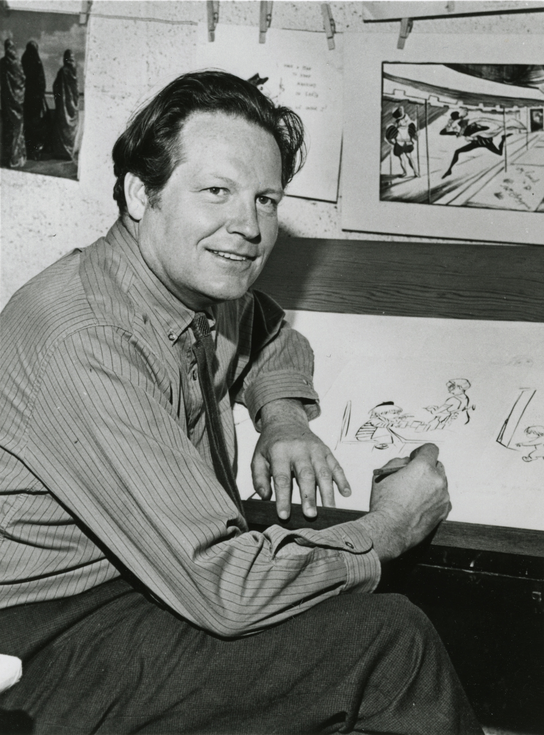 American illustrator Don Freeman, 1908–1978. Photo taken by Ray Borges in Santa Barbara, CA, around 1954. Don is working on an illustration for an unpublished work, "The Inferior Decorator." (The boy with the beret is called here "Corduroy," long before the book with the bear of the same name.) Above is an illustration from another unpublished work, "Great Shakes" about Shakespeare being called down from Heaven to help Hollywood out of a creative low.